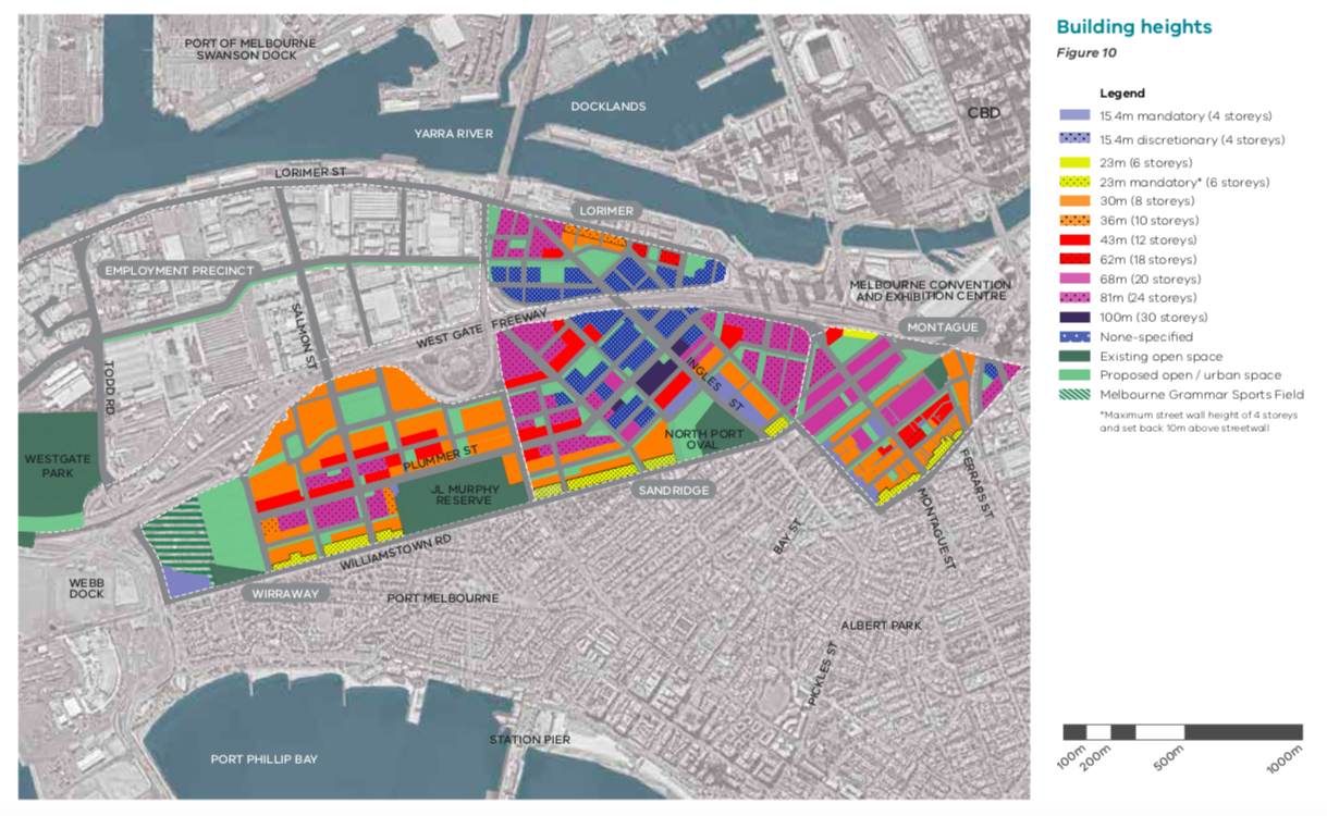 Height controls for the Fishermans Bend urban renewal precinct in Melbourne as part of their 2018 Framework plan for the area